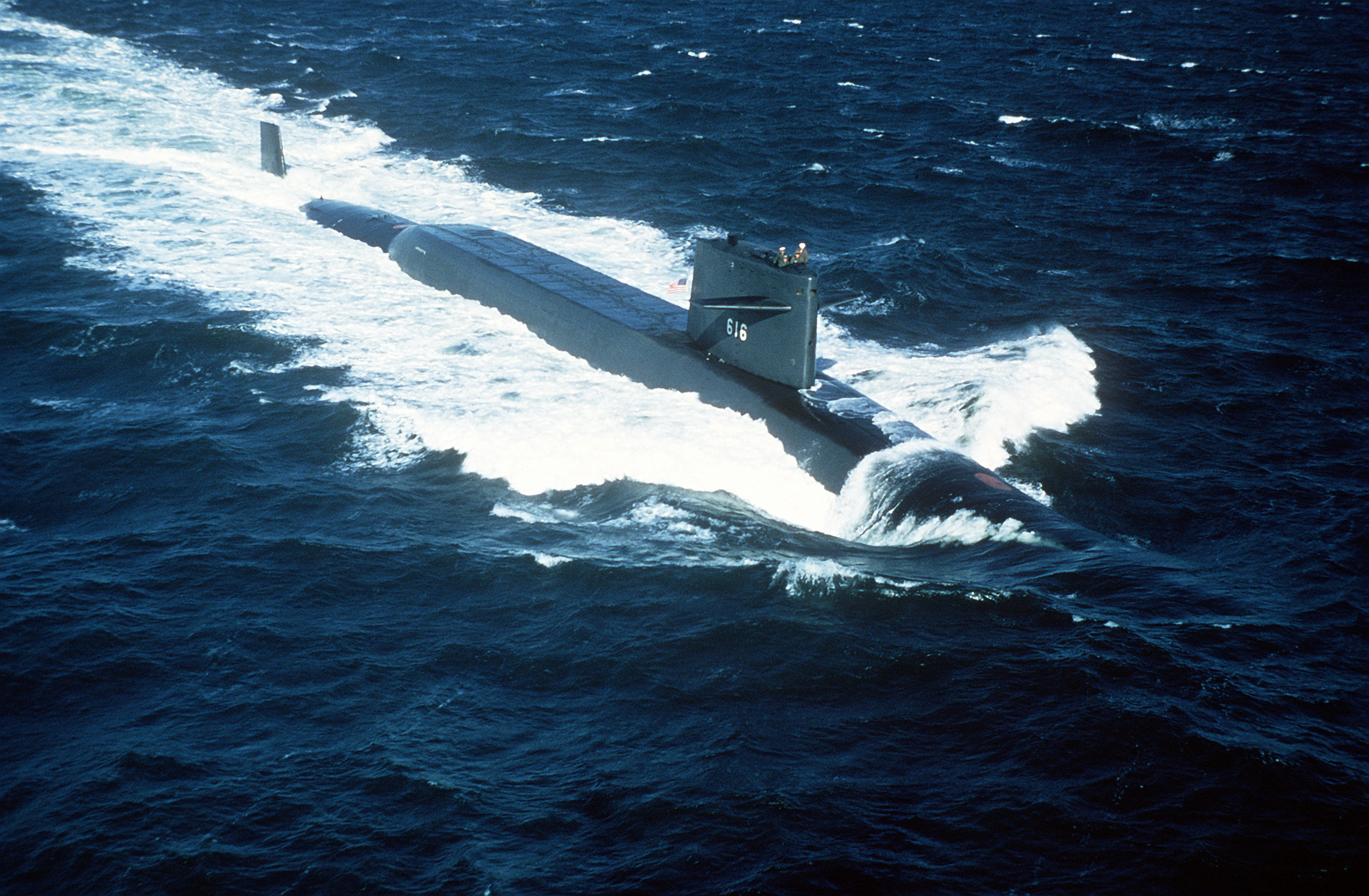 A starboard bow view of the nuclear-powered strategic missile submarine USS LAFAYETTE (SSBN-616) underway.Location: HAMPTON ROADS, VIRGINIA (VA) UNITED STATES OF AMERICA (USA)